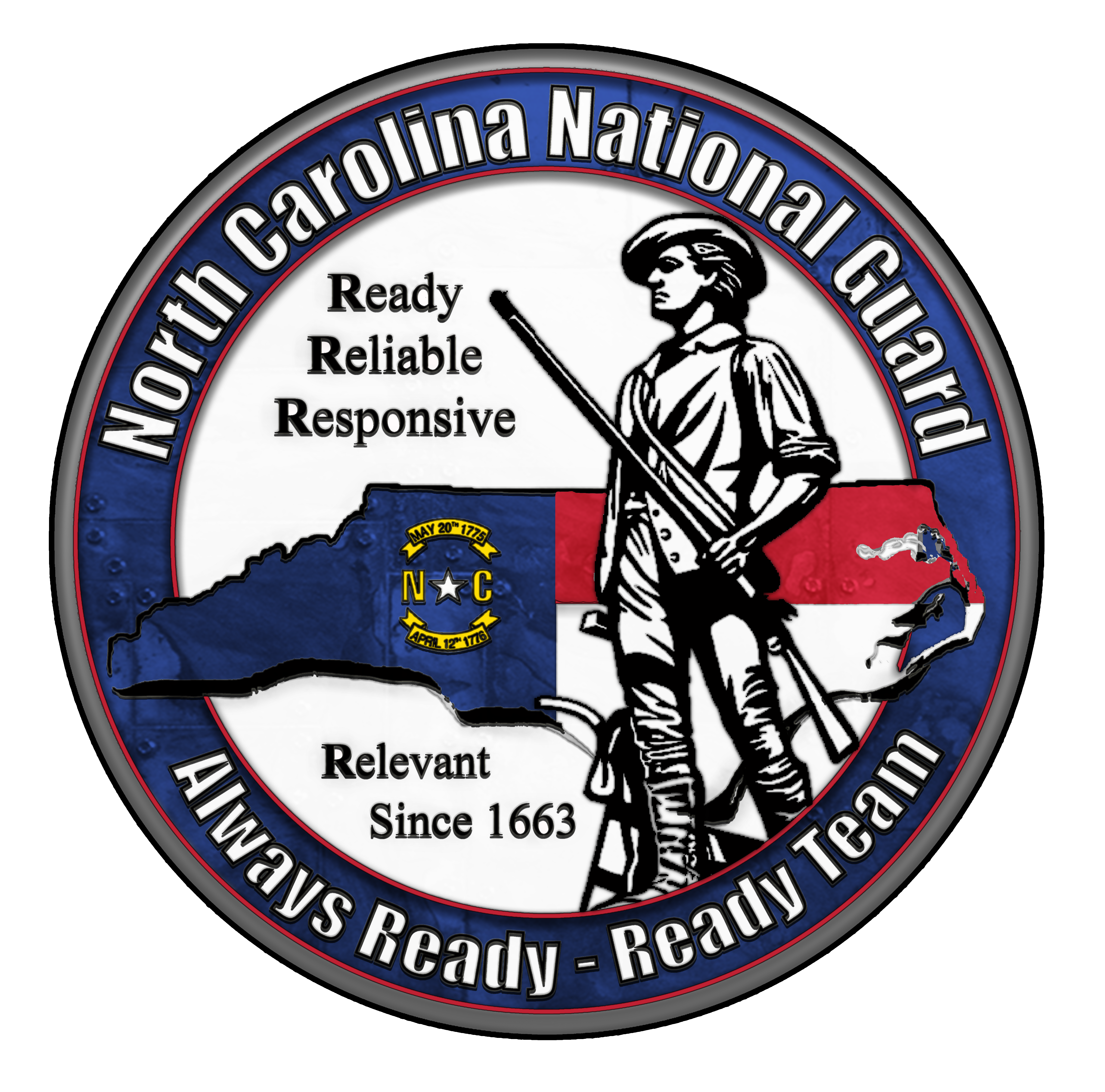 This is the official logo for the North Carolina National Guard.